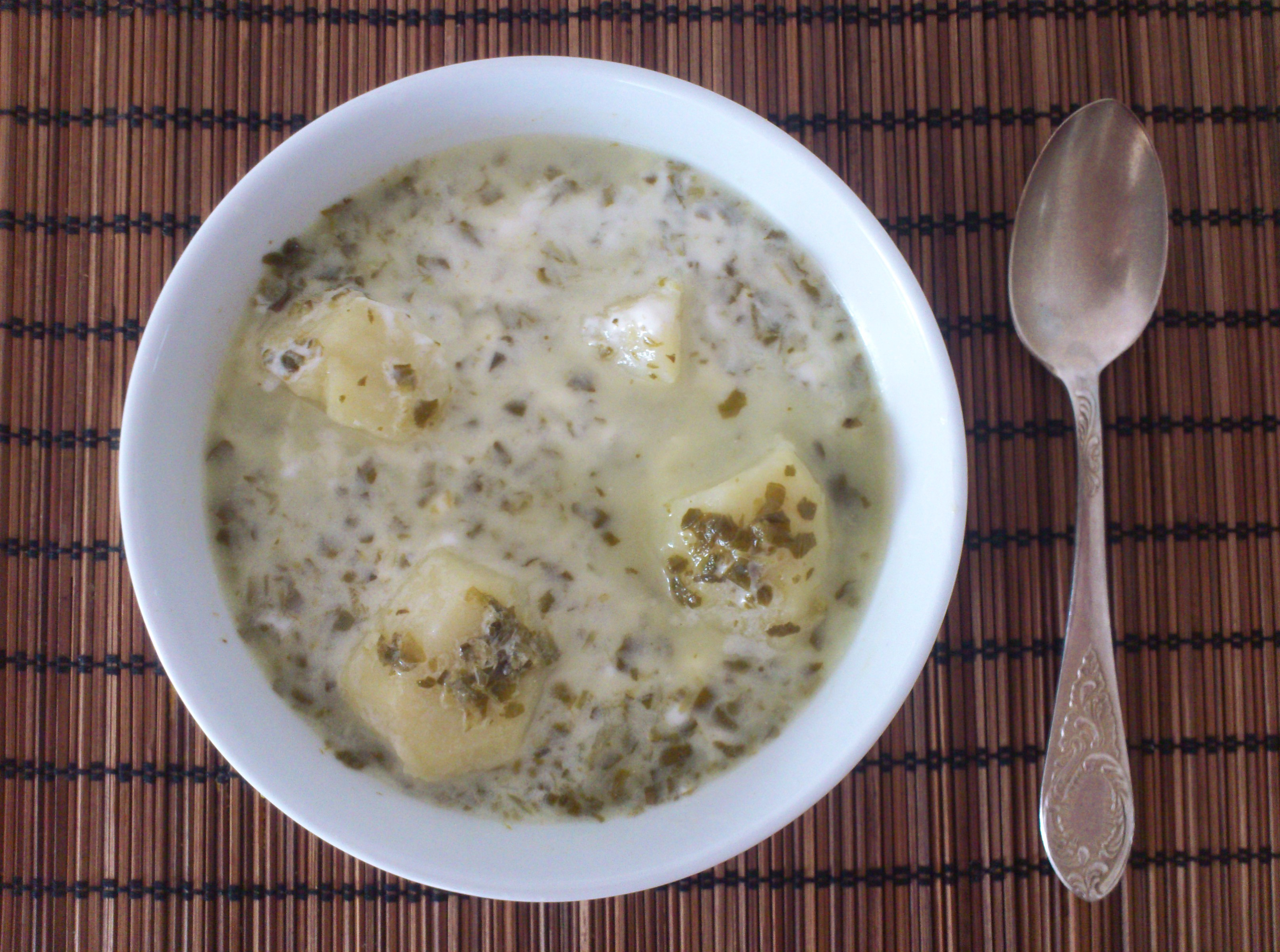 Greent borscht made from spinach with potatoes. Mixed with smetana (sour cream)